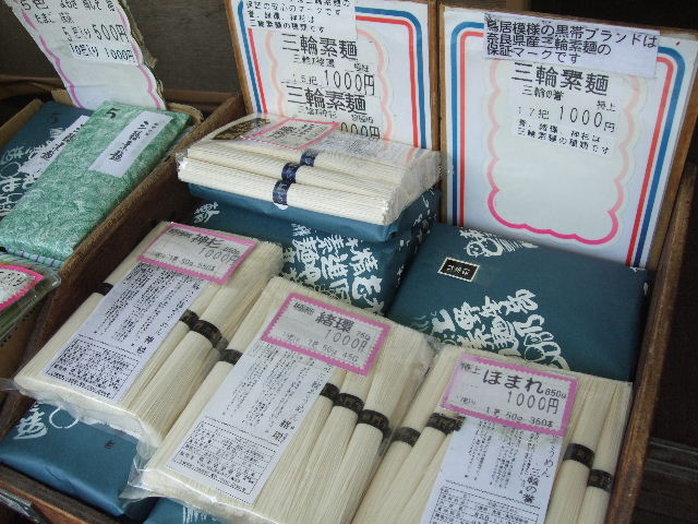 Varieties of Miwa somen on the shop floor, in Sakurai, Nara, Japan.